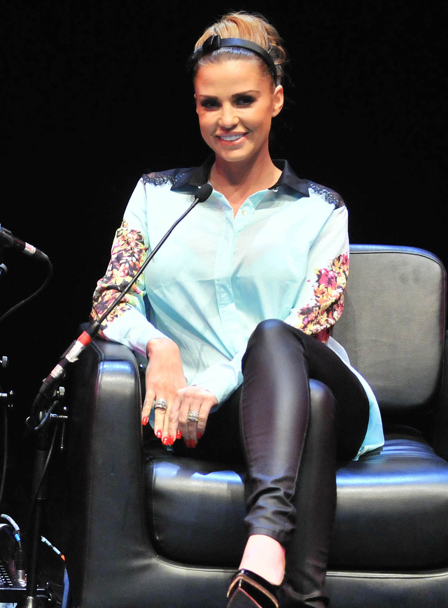 Katie Price pictured in 2014 at the WOW Festival.